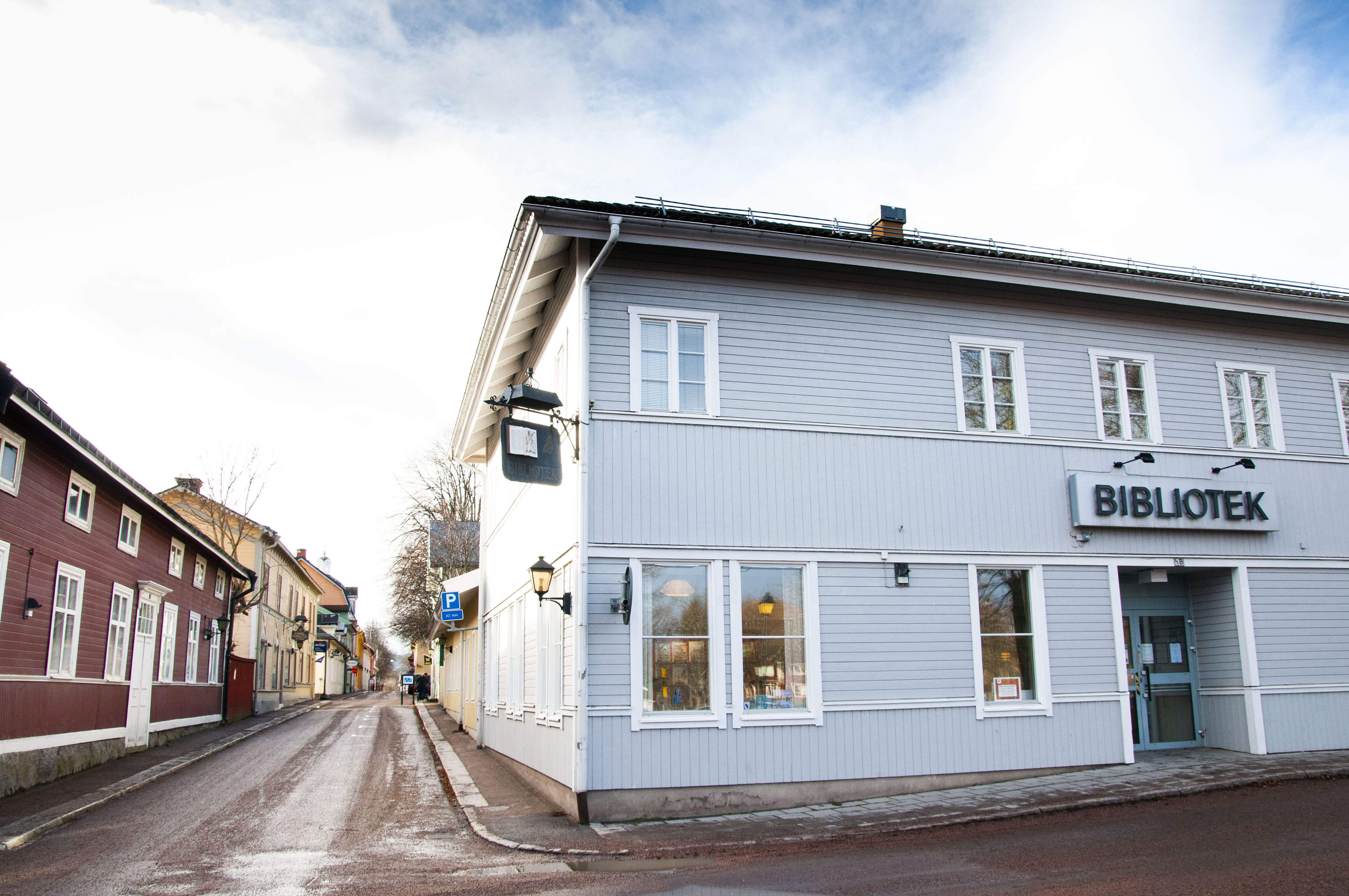 The city library of Säter in Dalarnas county, Sweden.